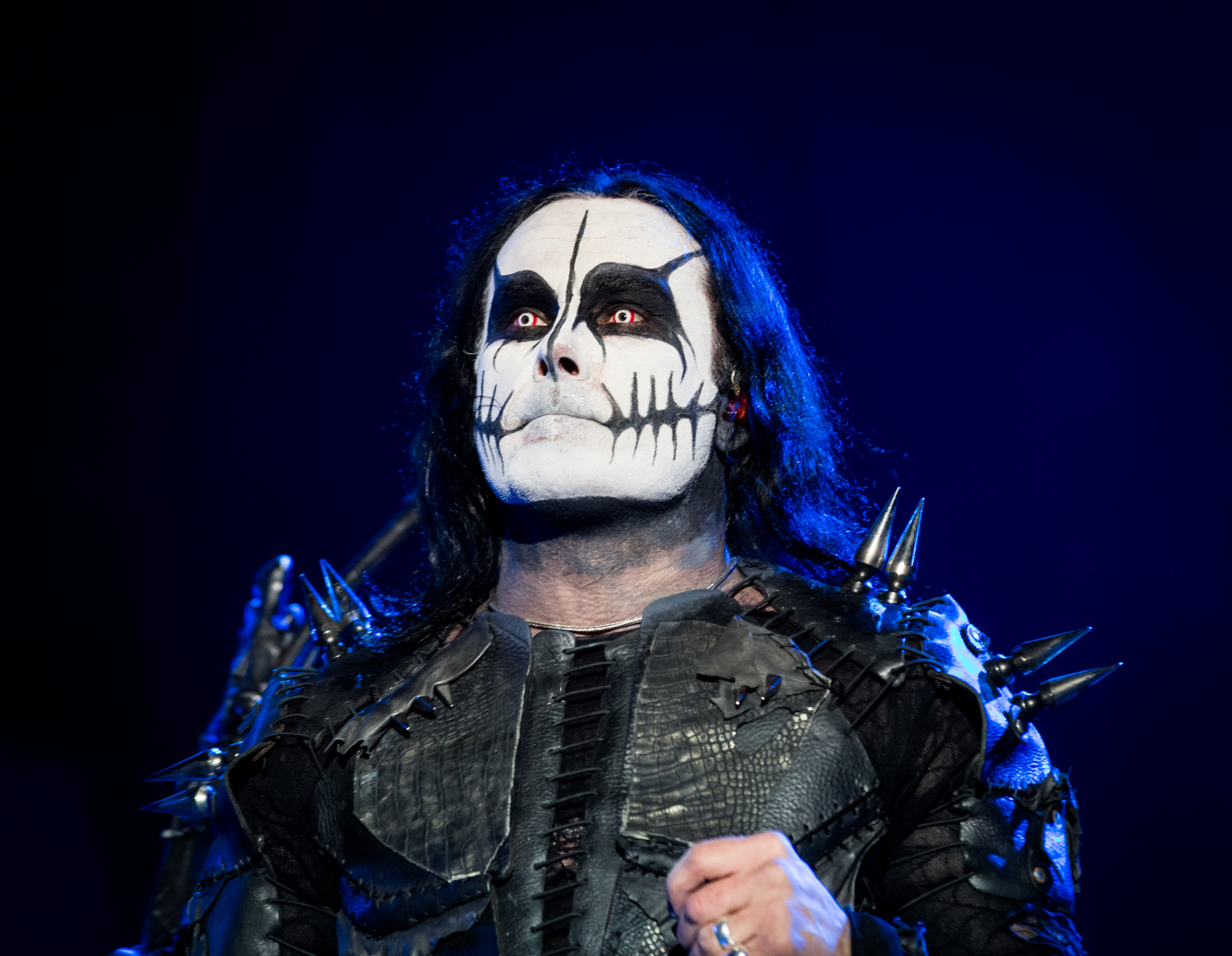 Cradle of Filth - Wacken Open Air 2015